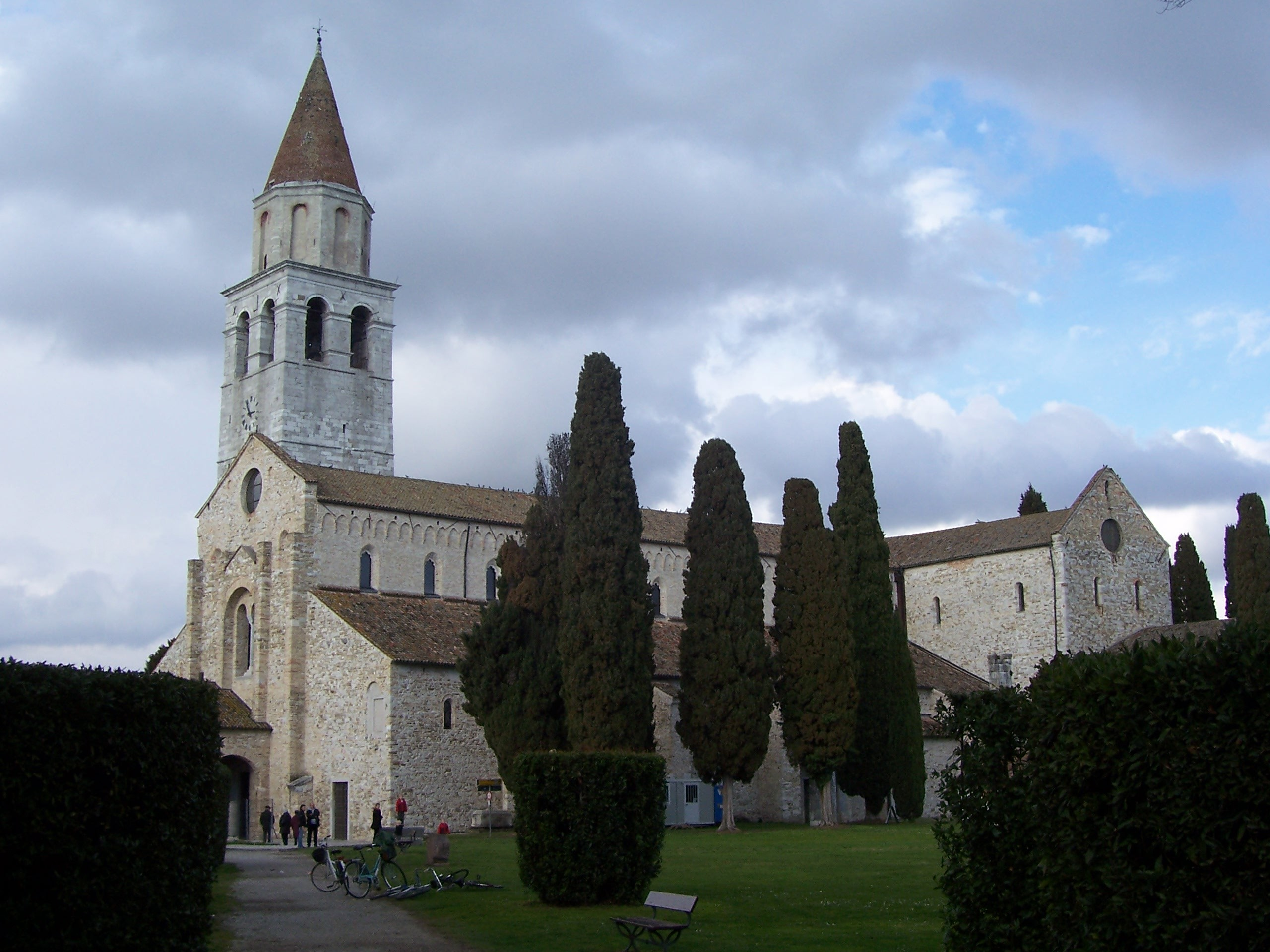 Basilica di Aquilei. NOTE: This version digitally altered by cut'n pasting out a distracting floodlight. User: Amandajm